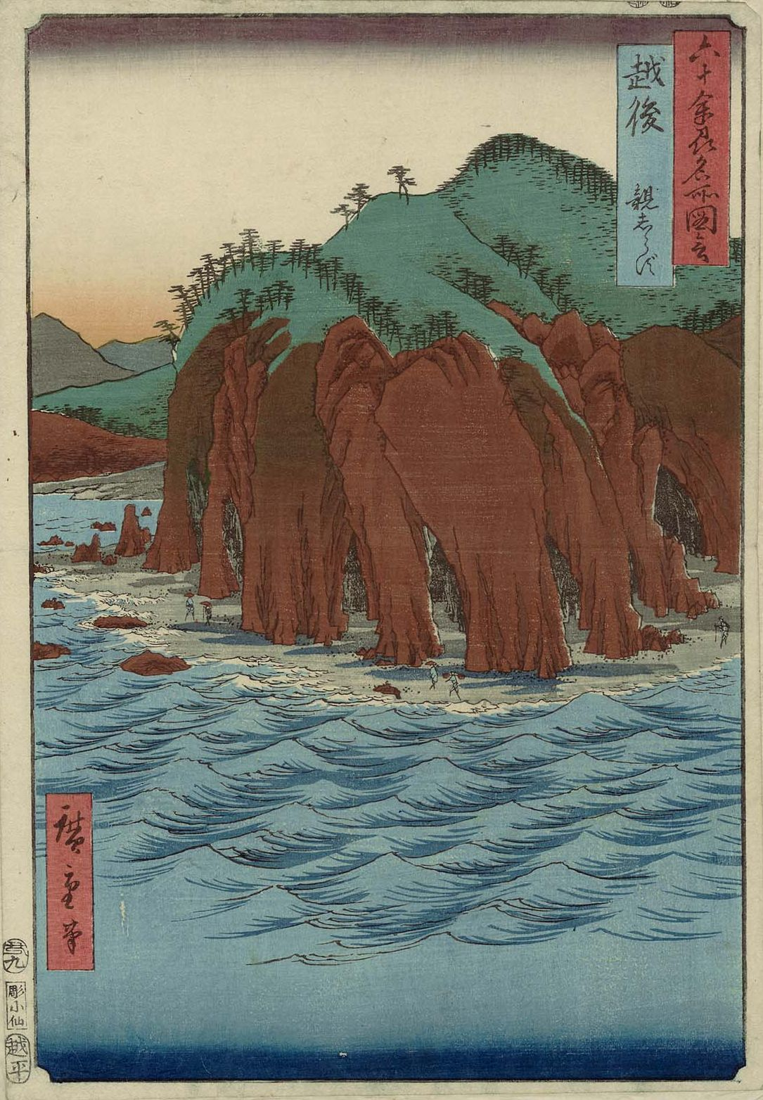 Part of the series Famous Places in the Sixty-odd Provinces, No. 35 (Hokurikudō group)